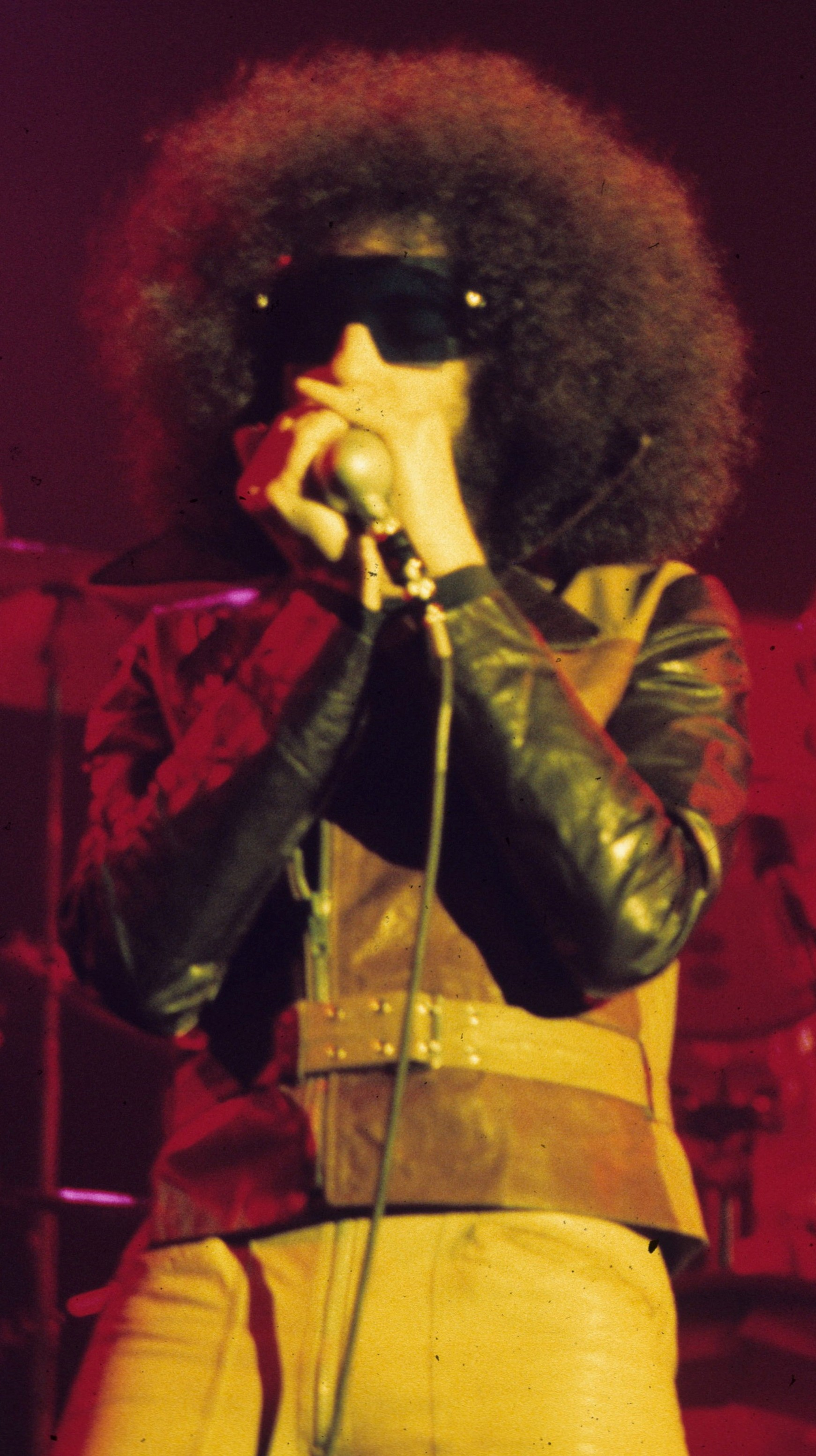 Magic Dick of The J. Geils Band performing in concert.